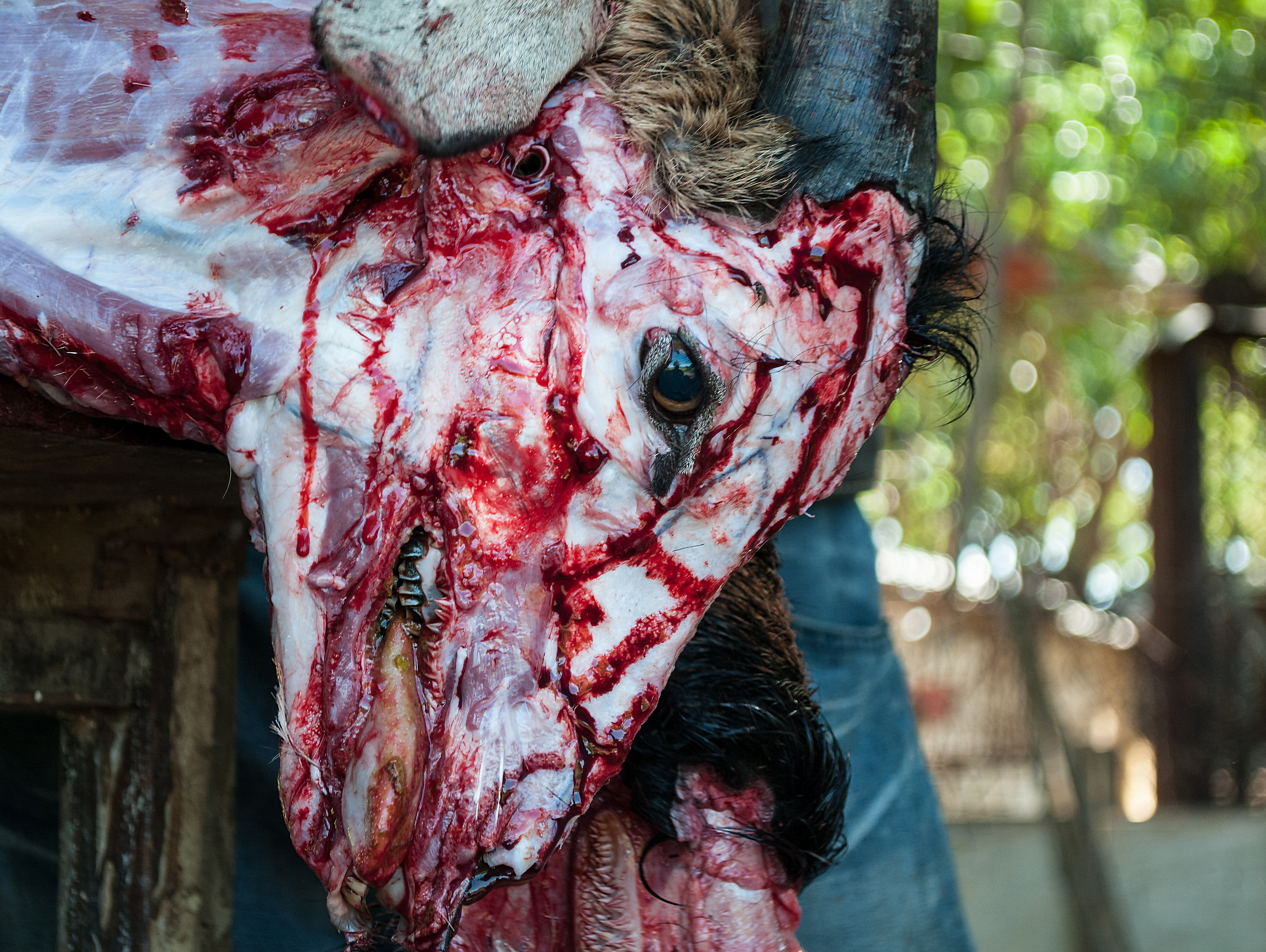 Goat killed Christmas